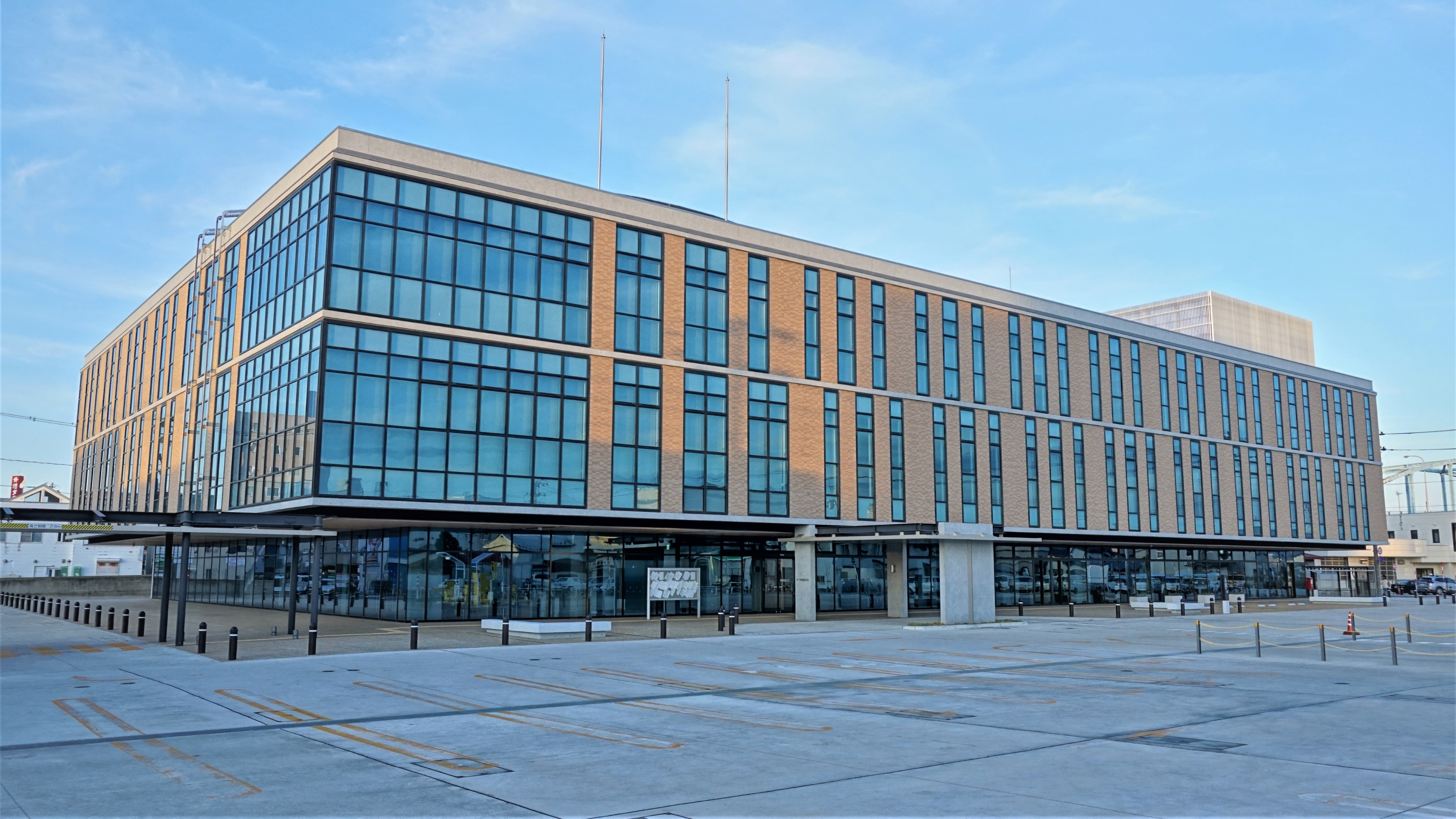 Goshogawara City Hall, Aomori, Japan